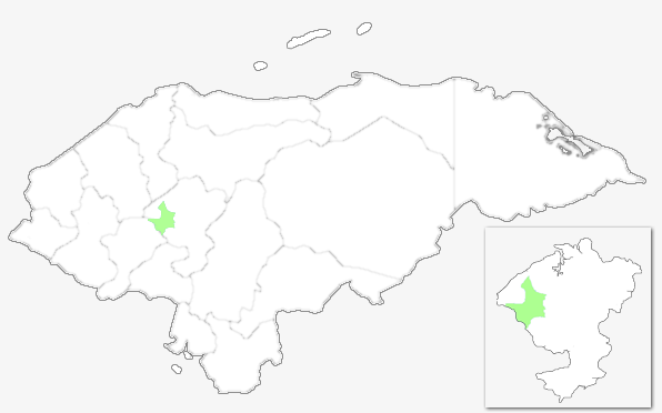 Location of siguatepeque in Honduras